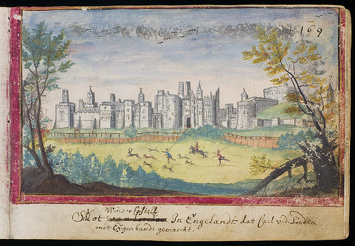 Edinburgh University Library Special Collections December 2006 January 2007 Michael van Meer, Album Amicorum, (or Stam Boek, Stamboek, Stammbuch, book of friends) 17th century Michael van Meer (Antwerp, ca. 1590 - Hamburg, October 13 1653) Album started 1613, ended 1648 527 pages, 774 contributions (entries) More information about the Van Meer Album in RAA REPERTORIVM ALBORVM AMICORVM Internationales Verzeichnis von Stammbüchern und Stammbuchfragmenten in öffentlichen und privaten Sammlungen Department Germanistik und Komparatistik, Friedrich-Alexander-Universität Erlangen-Nürnberg